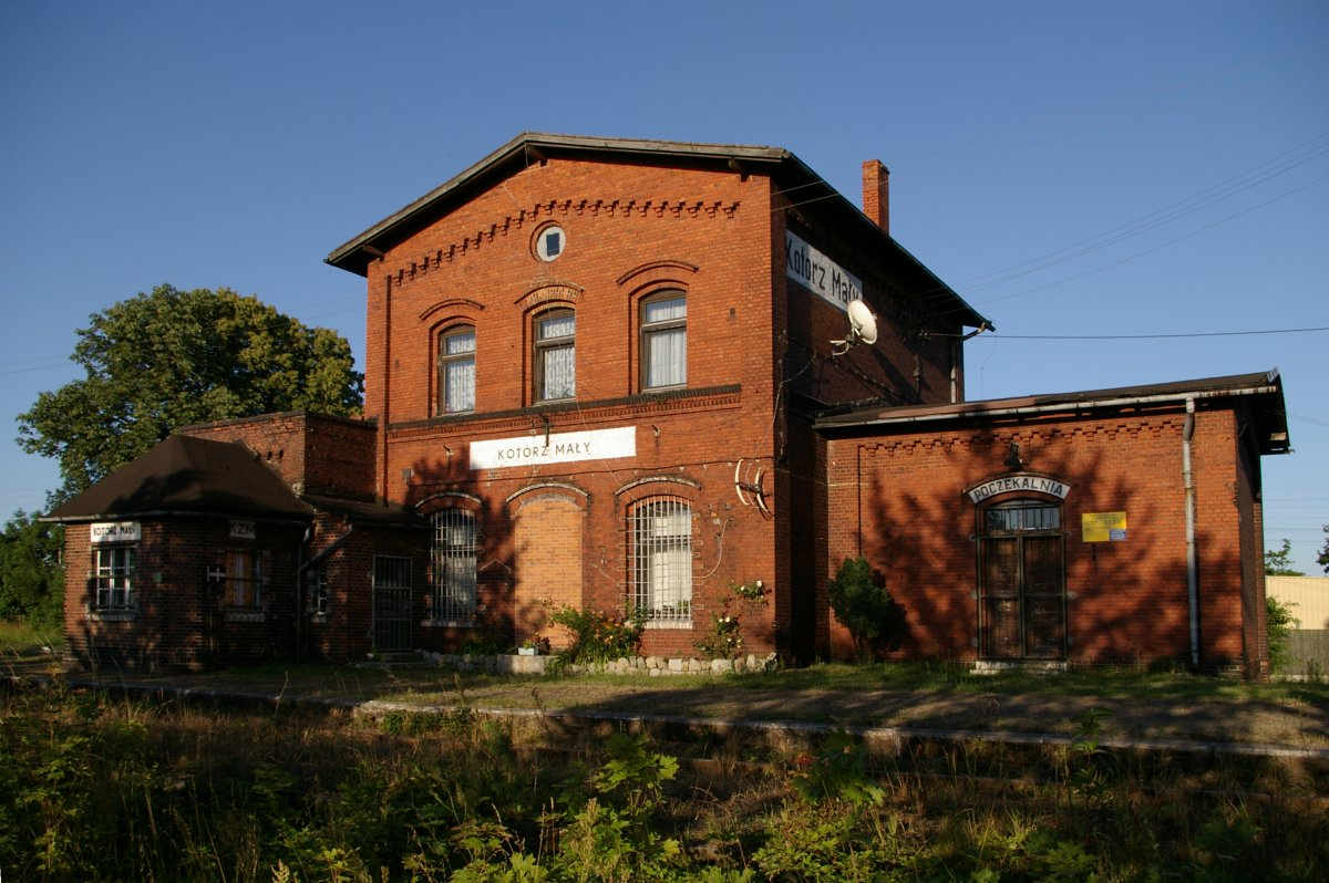 Railway station building in Kotórz Mały, Opole voivodship, Poland